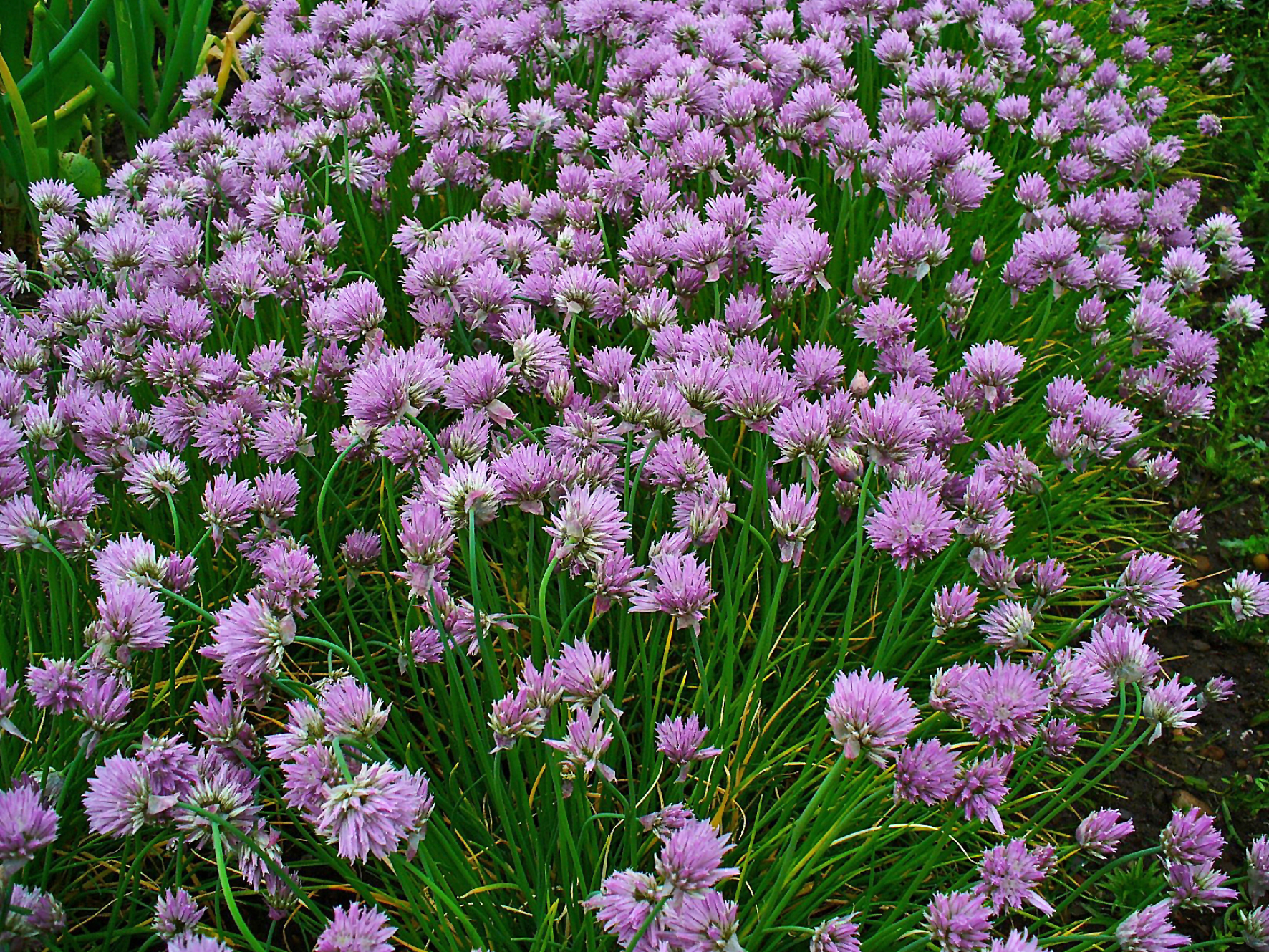 Allium schoenoprasum, Alliaceae, Chive, habitus; Botanical Garden KIT, Karlsruhe, Germany.